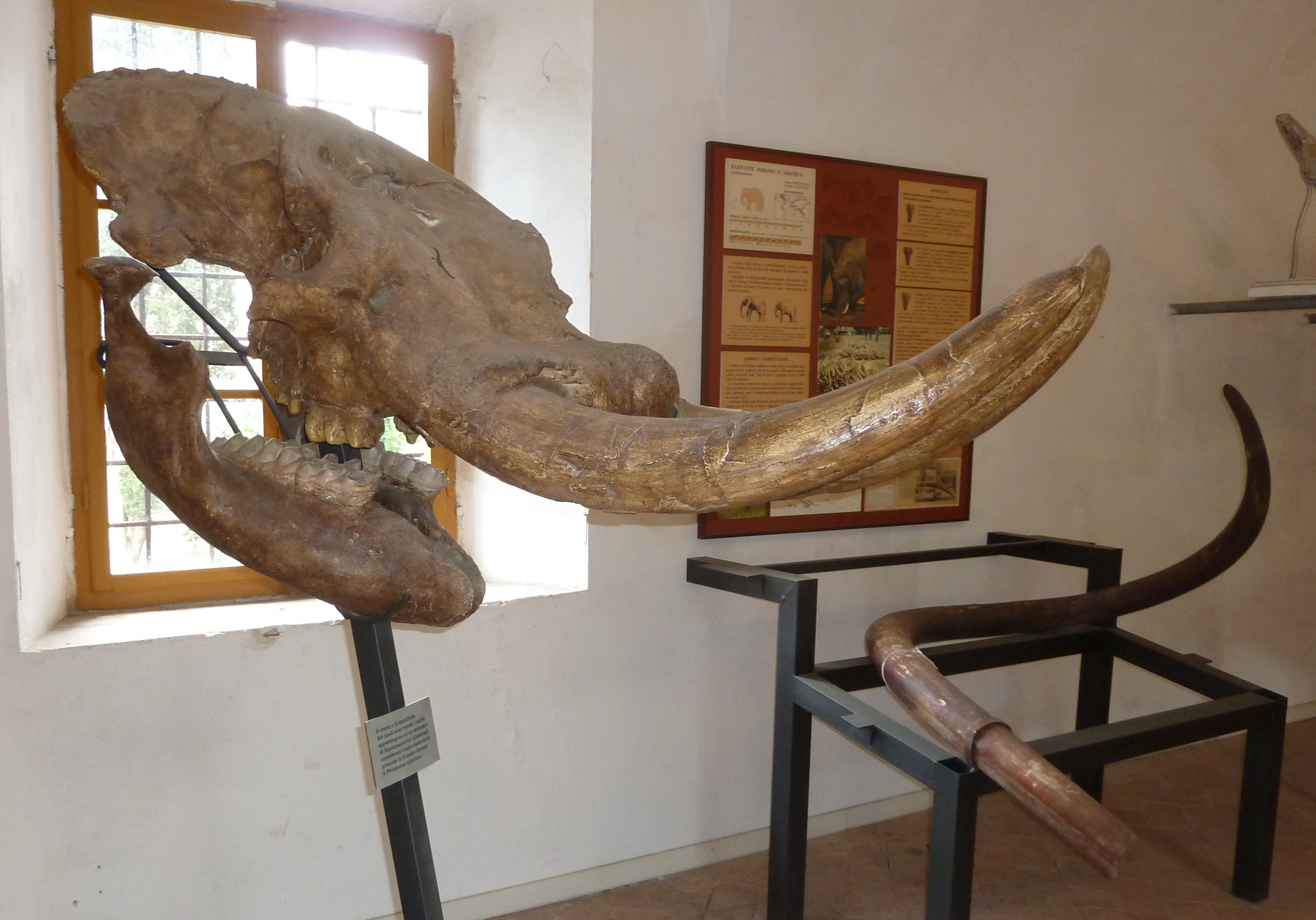 Haplomastodon chimborazi Pisa